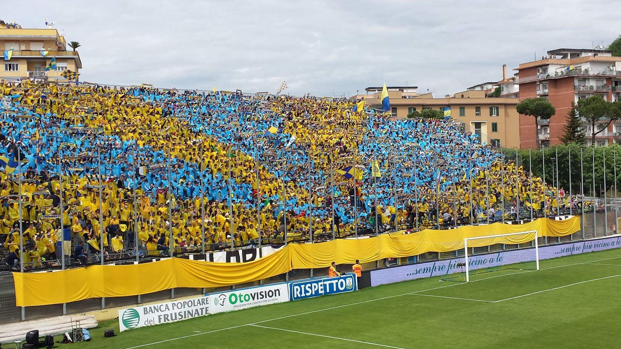 Matusa Stadium: the North Stand (Frosinone-Crotone 3-1, 16/5/2015)